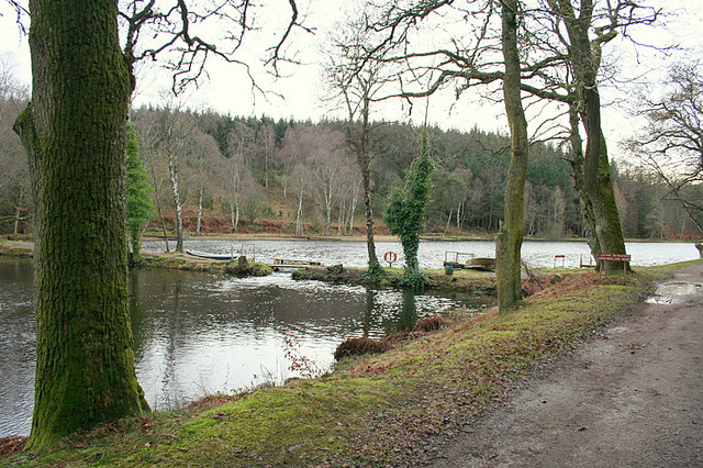 The Geddes trout fishery A well stocked and beautifully situated fishery which has qualified as a Troutmaster Loch in that its size and quality meet the standards set nationally. Rainbow and Brown trout can be found in these waters.